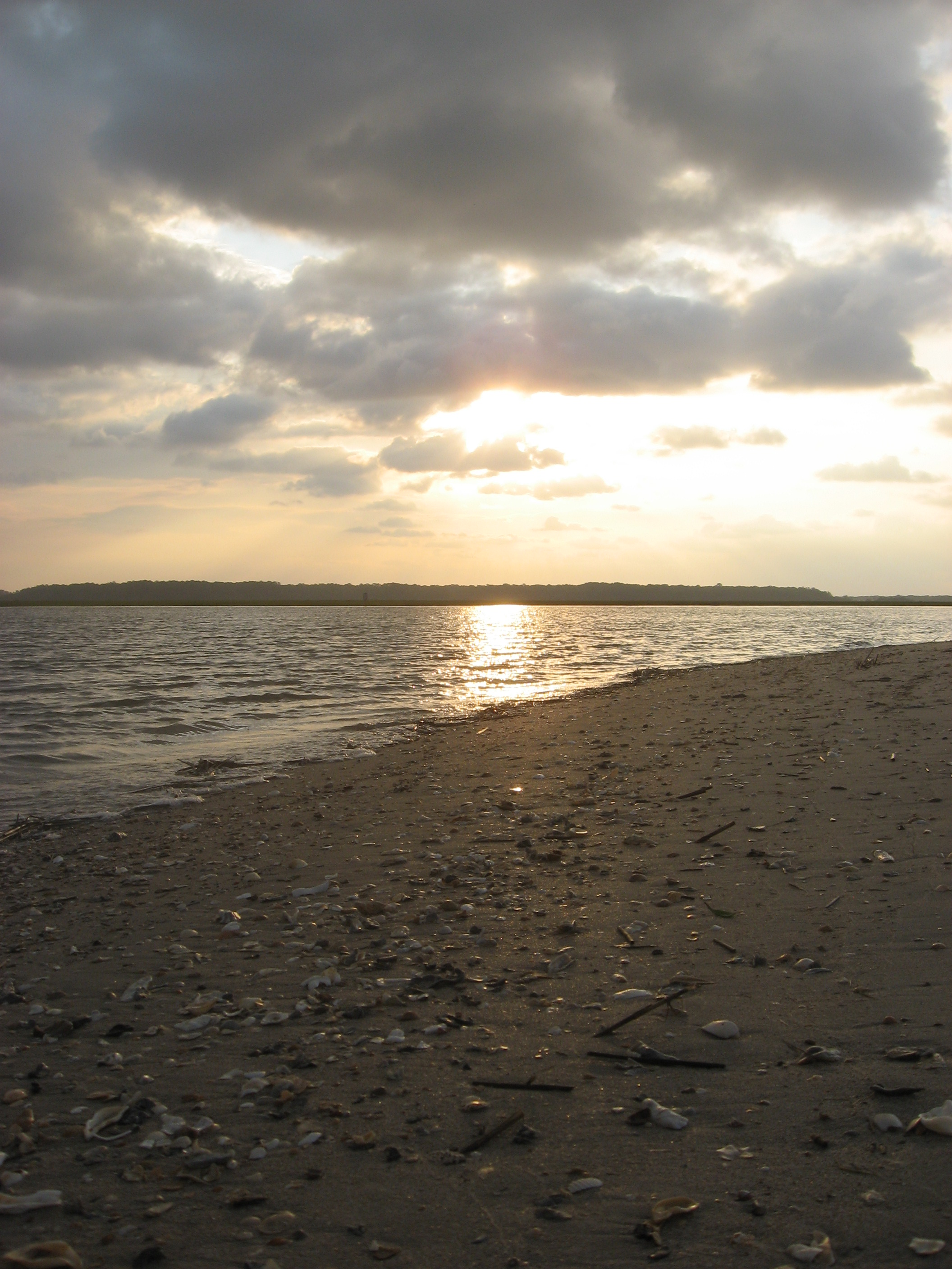 Sunrise over the sound, taken from just inches above the sand. Shell fragments can be seen in the sand. Because of the shape of the island the land seen in the background is still Edisto Island, the water to right leads to Big Bay Creek.